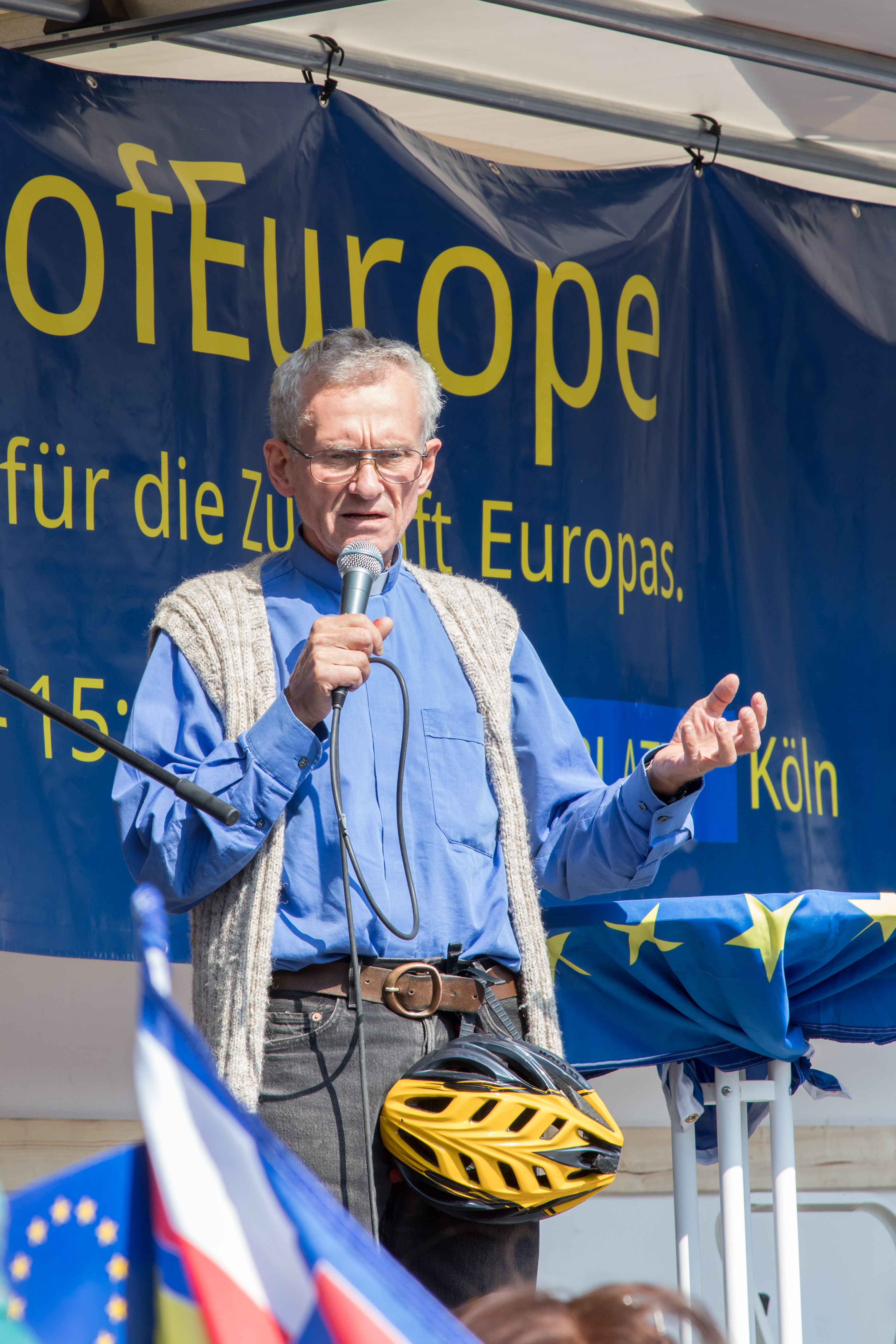 Pulse of Europe Cologne at Sunday, April 2nd 2017